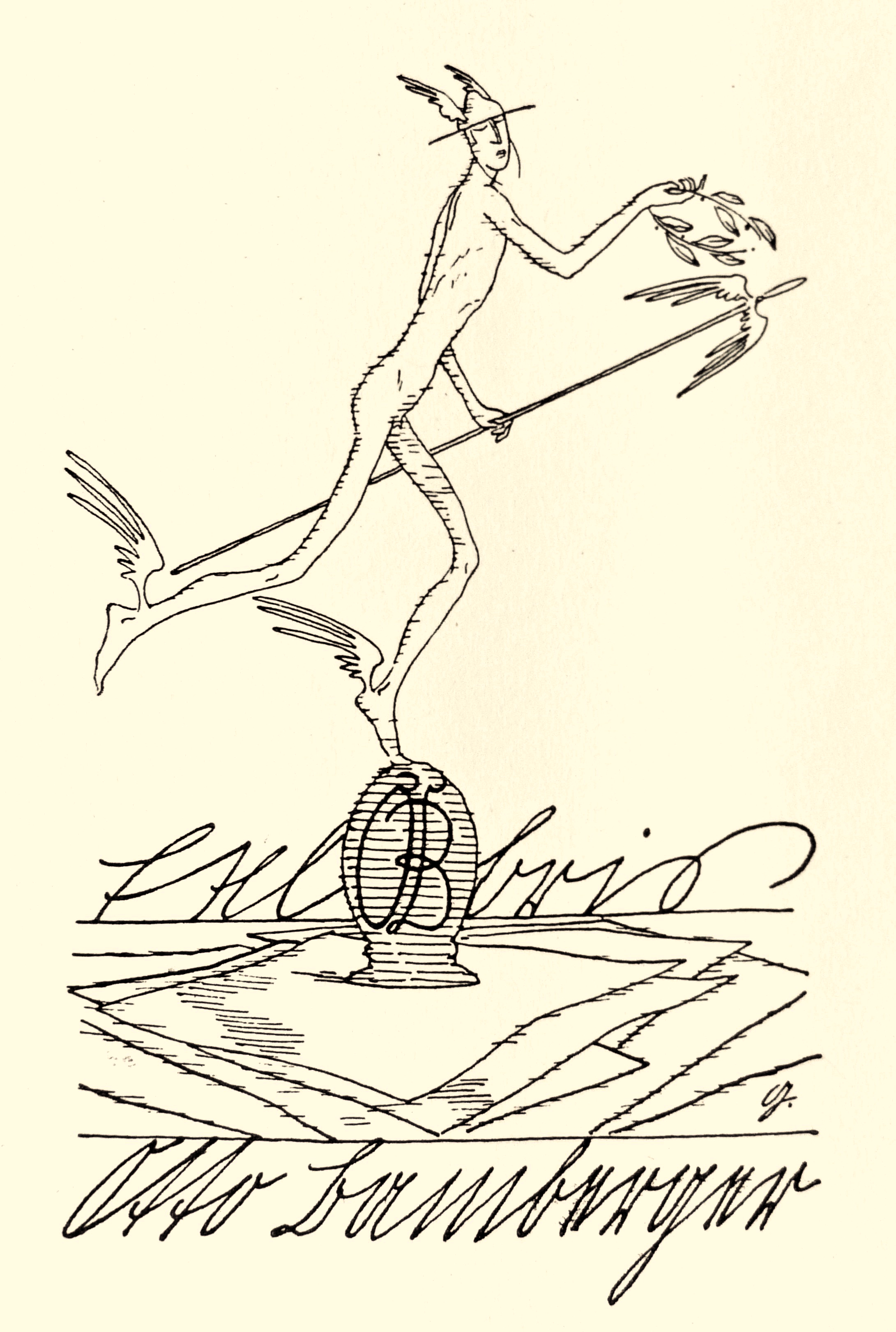 Exlibris of the German entrepreneur, arts collector and patron of the arts Otto Bamberger (1885–1933) of Lichtenfels, Upper Franconia, Bavaria